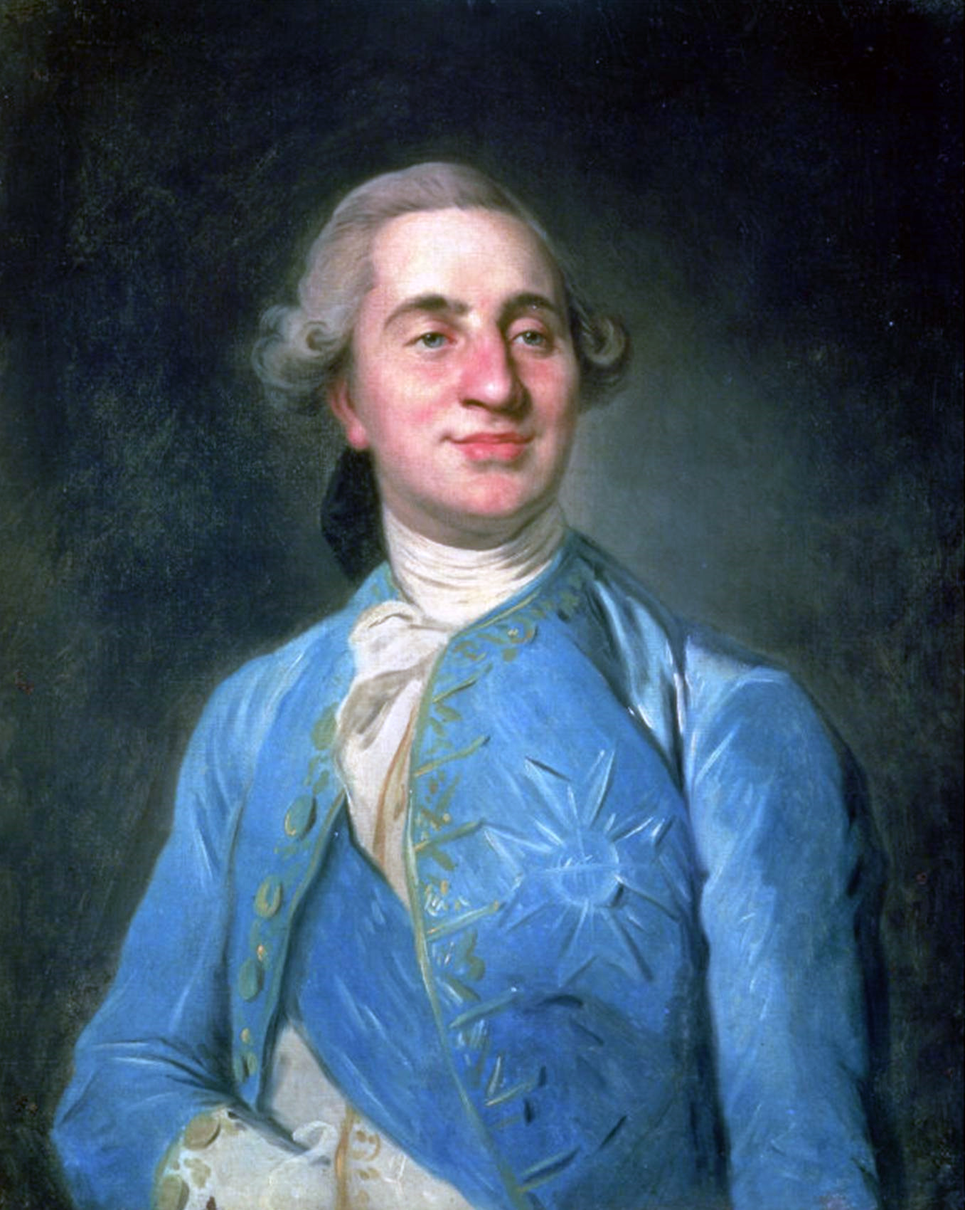 Louis XVI of France (1754-1793)